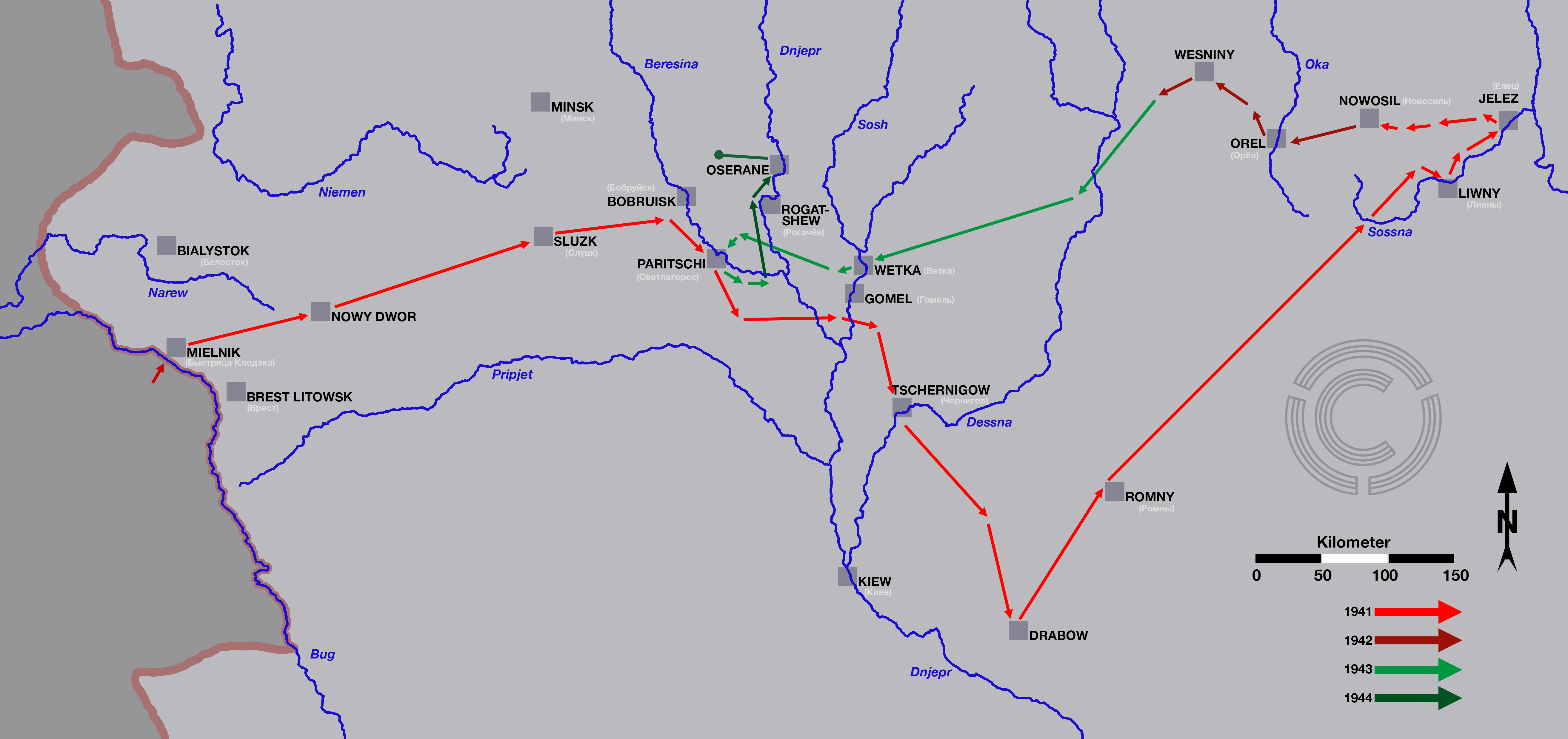 Marching route of the 134th Infantry Division in the German-Soviet War, based on a map sketch in the supplement "Combat Calendar" of the book "History of the 134th Infantry Division" (Werner Haupt, Ed. Kameradenkreis the former 134th ID., Self-published, Bad Kreuznach 1971). Place and river names were taken over in the former spelling, and partially (as far as possible) transcribed into Russian. The borderlines are displayed in the state of that time.